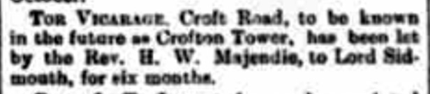 Torre Vicarage renamed Crofton Tower in 1900